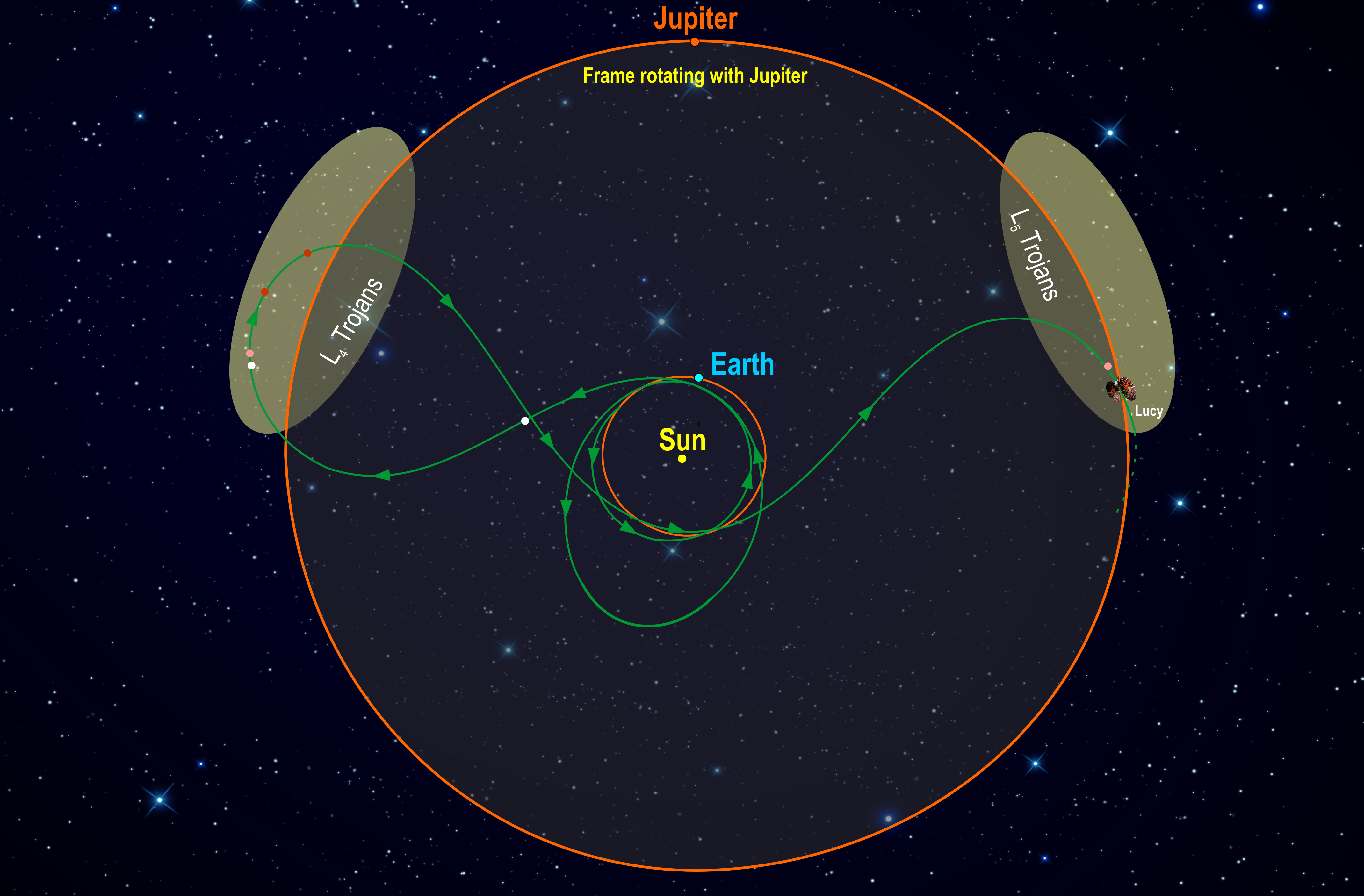 This diagram illustrates Lucy's orbital path. The spacecraft’s path (green) is shown in a frame of reference where Jupiter remains stationary, giving the trajectory its pretzel-like shape. After launch in October 2021, Lucy has two close Earth flybys before encountering its Trojan targets. In the L4 cloud Lucy will fly by (3548) Eurybates (white), (15094) Polymele (pink), (11351) Leucus (red), and (21900) Orus (red) from 2027-2028. After diving past Earth again Lucy will visit the L5 cloud and encounter the (617) Patroclus-Menoetius binary (pink) in 2033. As a bonus, in 2025 on the way to the L4, Lucy flies by a small Main Belt asteroid, (52246) Donaldjohanson (white), named for the discoverer of the Lucy fossil. After flying by the Patroclus-Menoetius binary in 2033, Lucy will continue cycling between the two Trojan clouds every six years